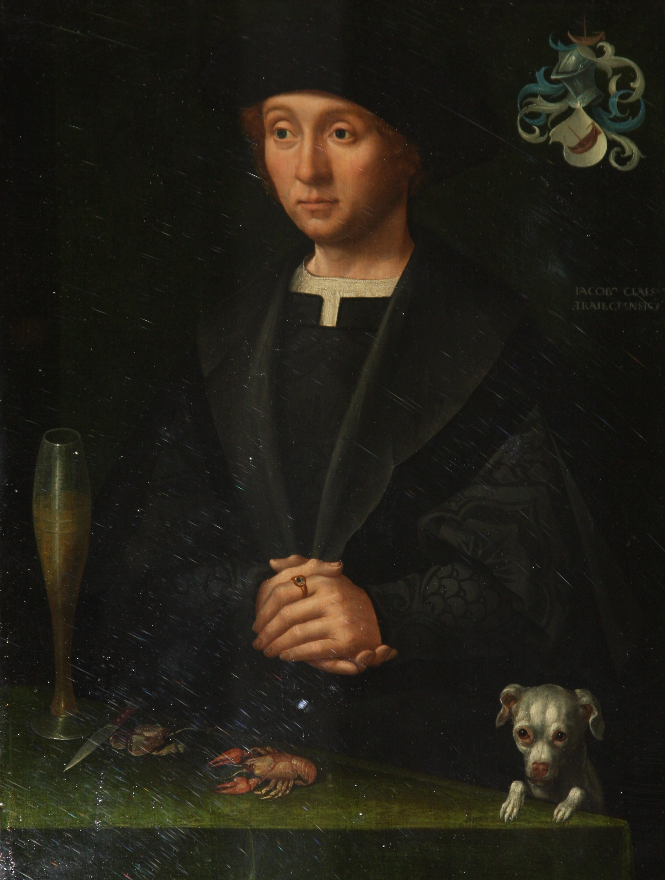 Portrait "Member of the Alardes Family", by Jacob Claesz van Utrecht (born 1480), Antwerpen. Oil on wood. National Museum, Stockholm.